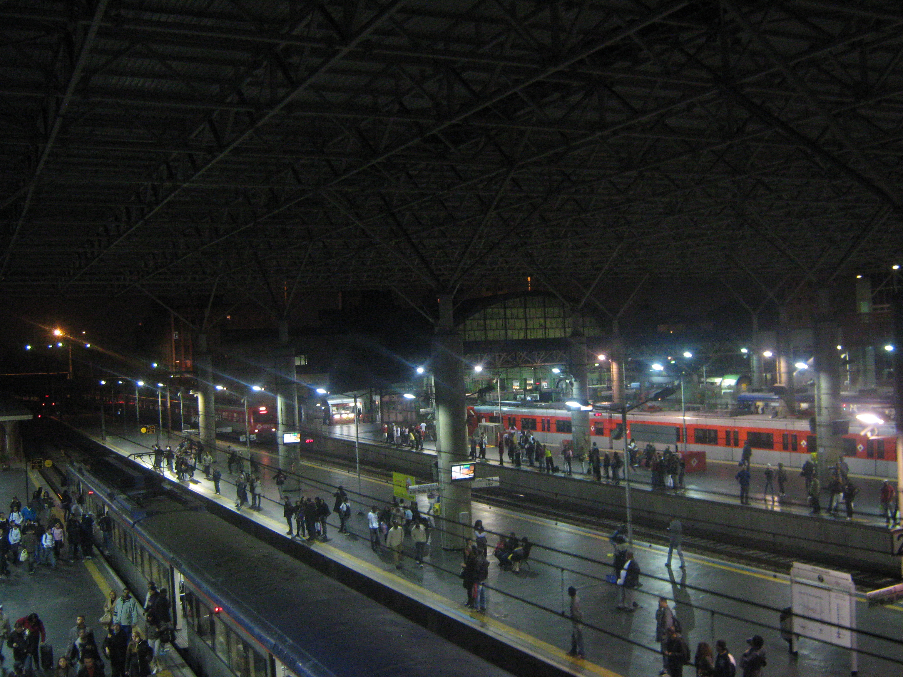 The Brás train Station of São Paulo.